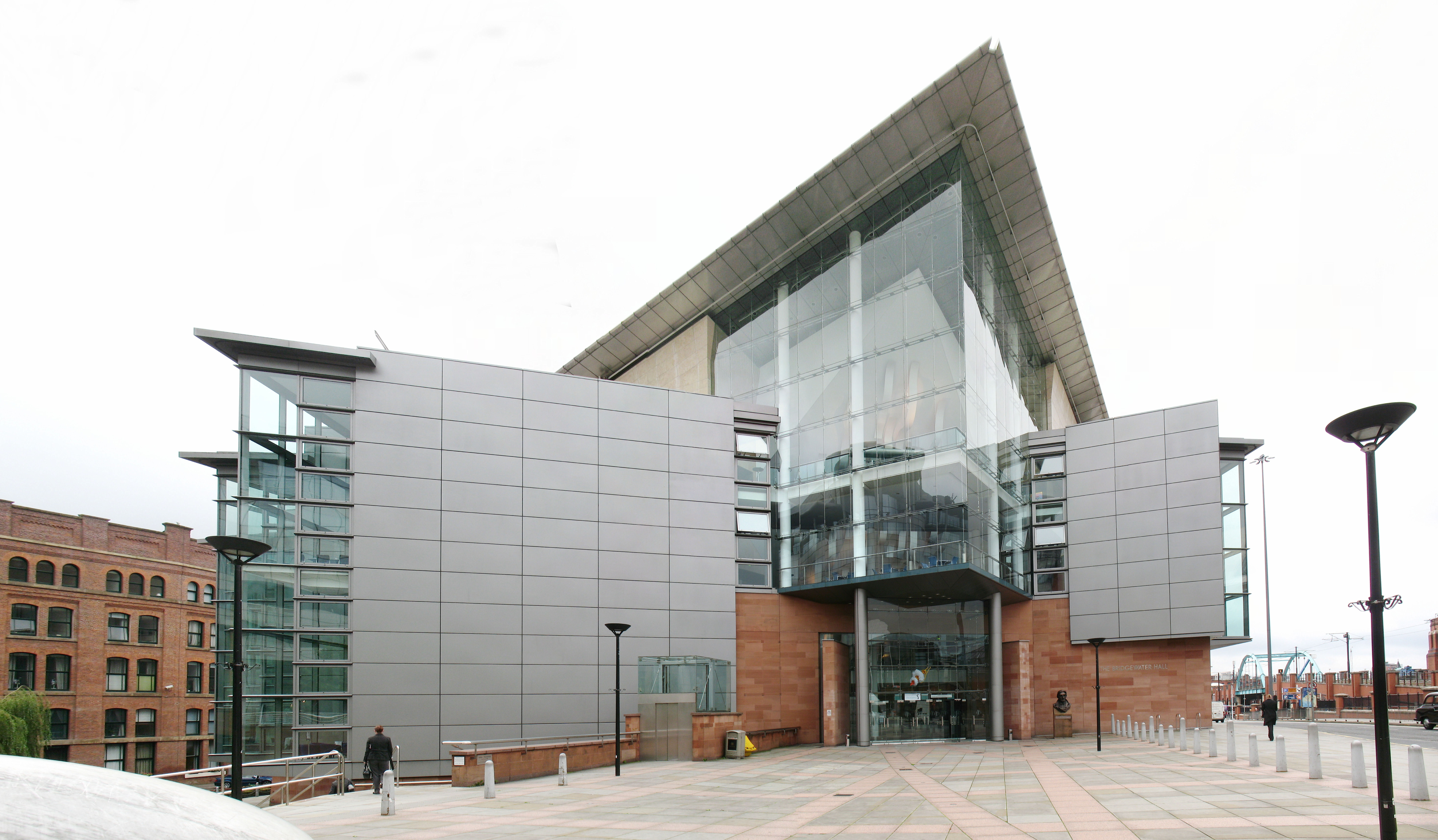 Bridgewater Hall, international concert venue for everything from brass bands to ballet; and symphonies to soul. Just visiting the building is a treat. Bridgewater Hall's website ______________________________ Two views inside the lobby - 1 and 2. Search Flickr for many more photos of the Hall - inside and out. I liked Paul Hurst's concert photoshoot and his three 'snapshots' are special. Andy Medina has some great night shots - (1) (2) (3).